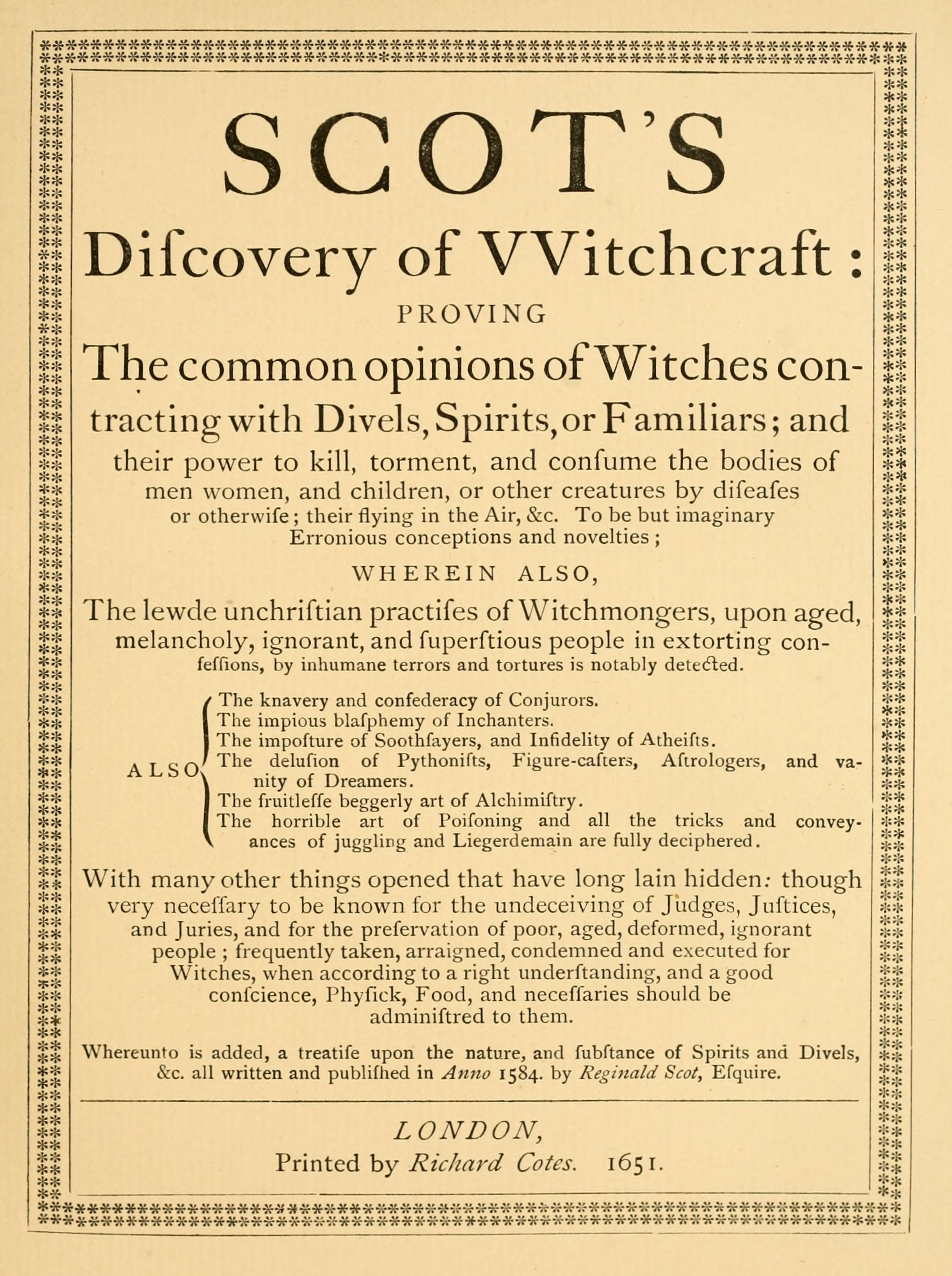 Title page of the 1651 edition of The Discoverie of Witchcraft.